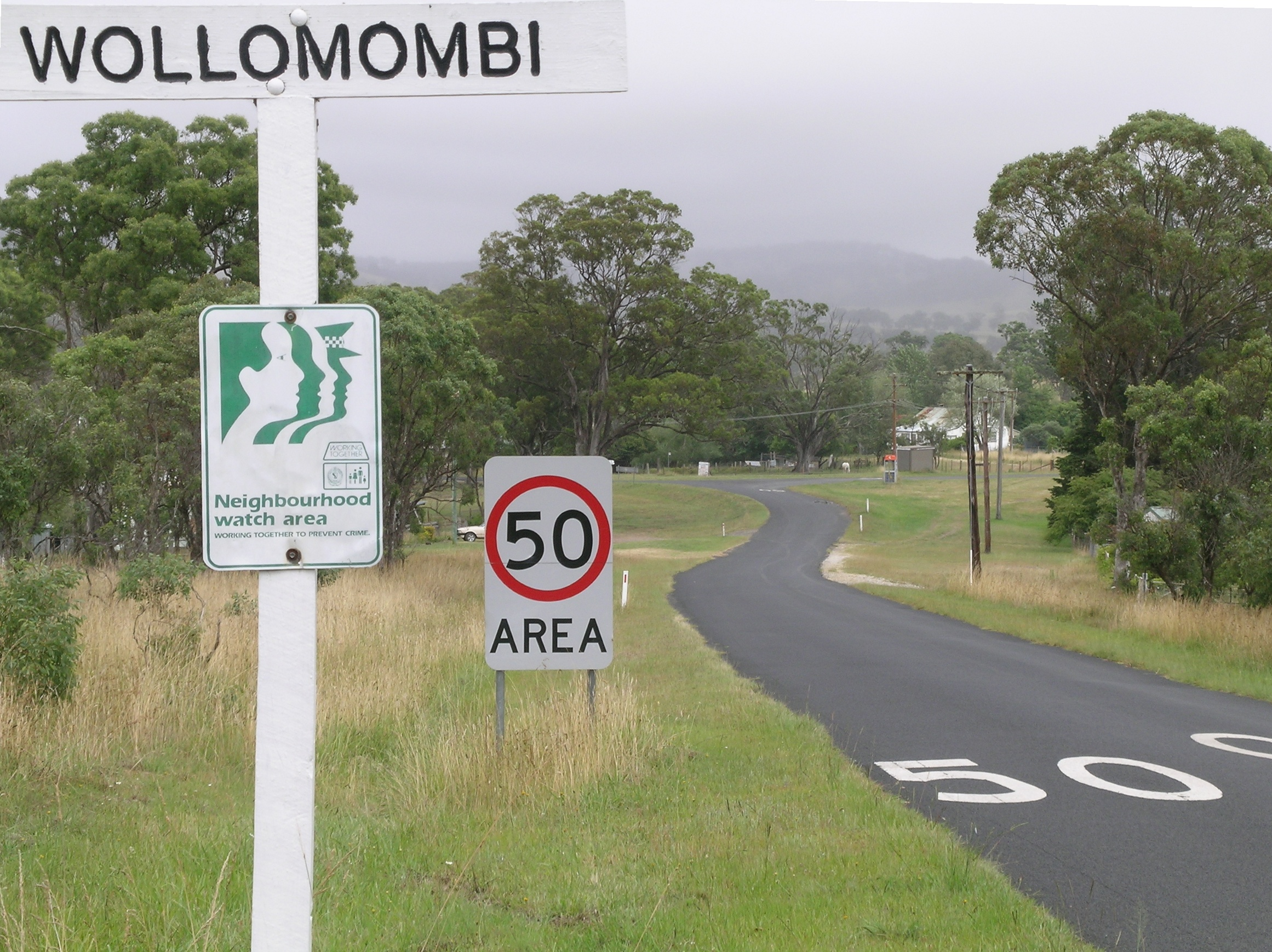 Wollomombi, NSW